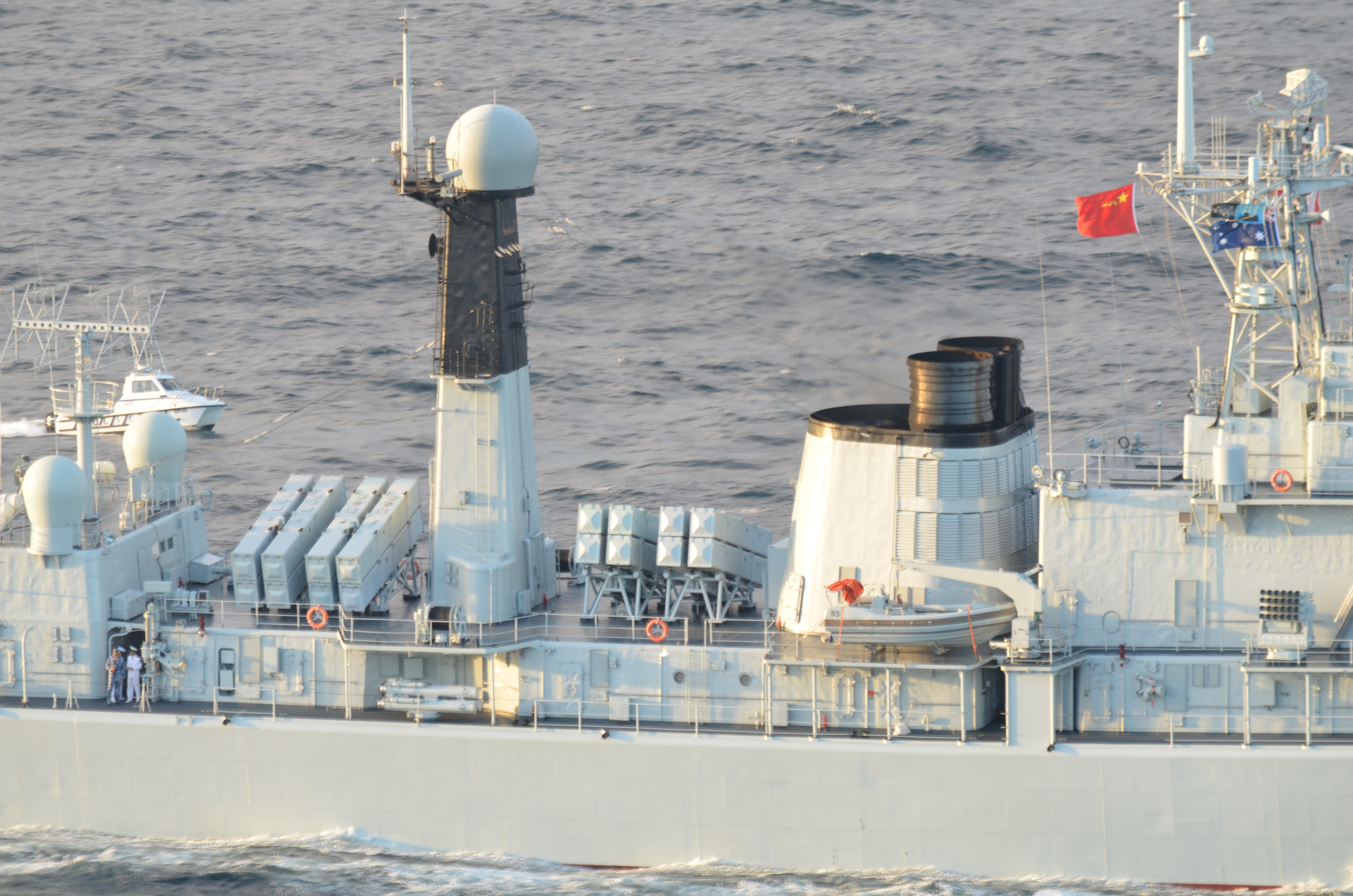 Photographs taken during day 2 of the Royal Australian Navy International Fleet Review 2013. Closeup of the amidships section of the Chinese destroyer Qingdao, entering Sydney Harbour as part of the warship fleet. Four quad C-803 missile launchers are fitted here.